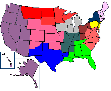 Federal Reserve districts